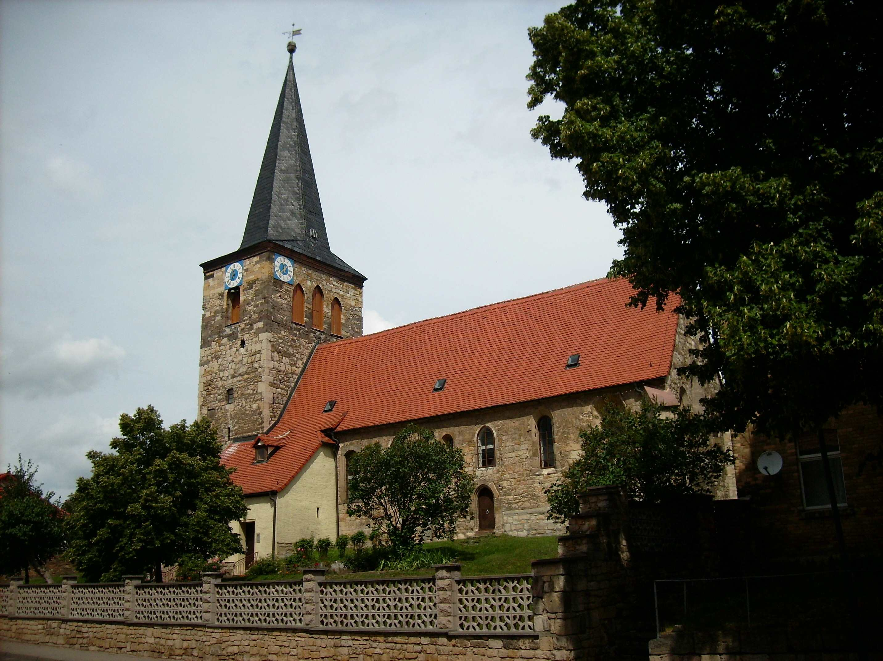 St. Nicholas Church Obereichstädt, Langeneichstädt (Mücheln/Geiseltal, district of Saalkreis, Saxony-Anhalt)